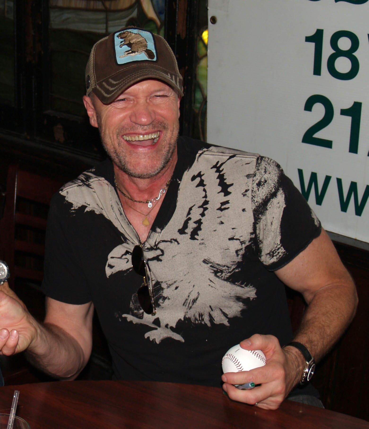 Actor Michael Rooker at a June 27, 2013 press luncheon at Foley's NY Pub & Restaurant in Manhattan for the 25th anniversary of the 1988 film Eight Men Out, in which Rooker starred. This photo was created by Luigi Novi. It is not in the public domain, and use of this file outside of the licensing terms is a copyright violation.